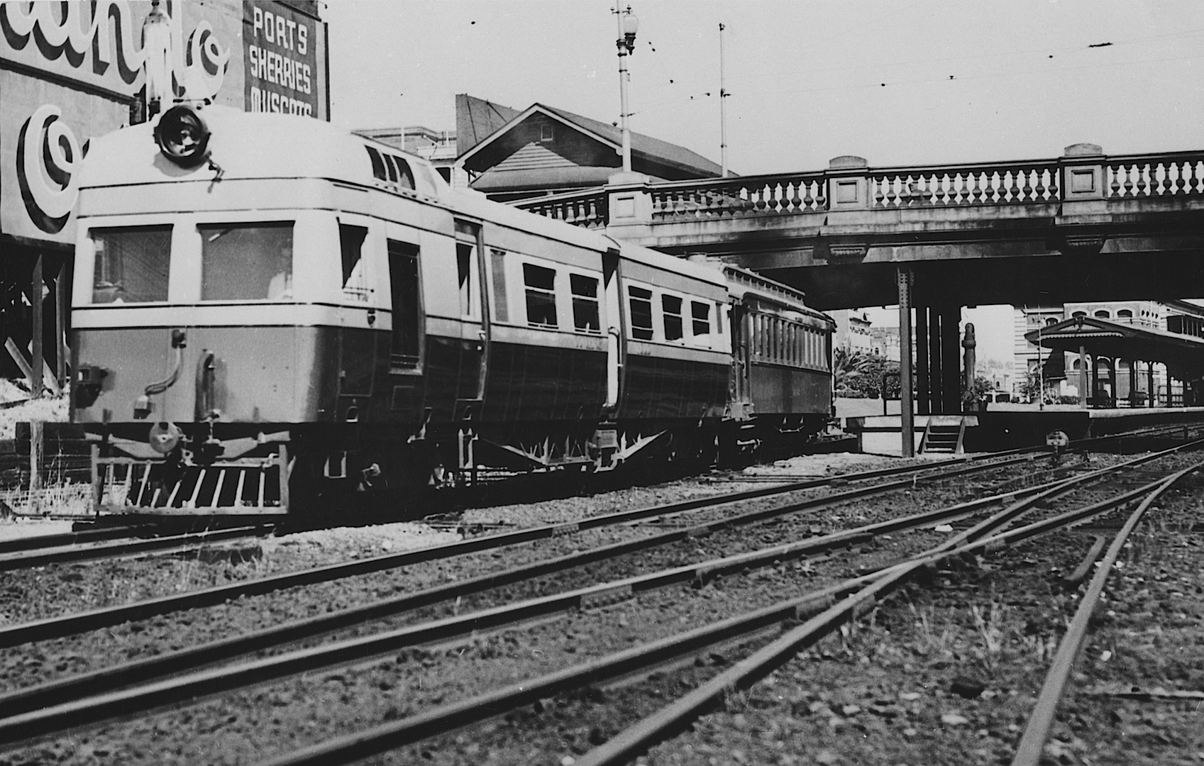 Western Australian Government Railways Governor class rail motor leaving Perth (Western Australia) Railway station circa 1938. Barrack Street bridge above, main rail station building right rear, roof of Sign Box 'B' above bridge, the railcar has an 'AG' coach as trailer. Bill board with Orlando sign at left is just north of Wellington Street, Perth. Also note the garden/lawn space between station building and Signal box - this area would be used on special occasions for photograph opportunities. Governor class diesel electric rail cars were introduced in 1936/1937 - order 1937 DT